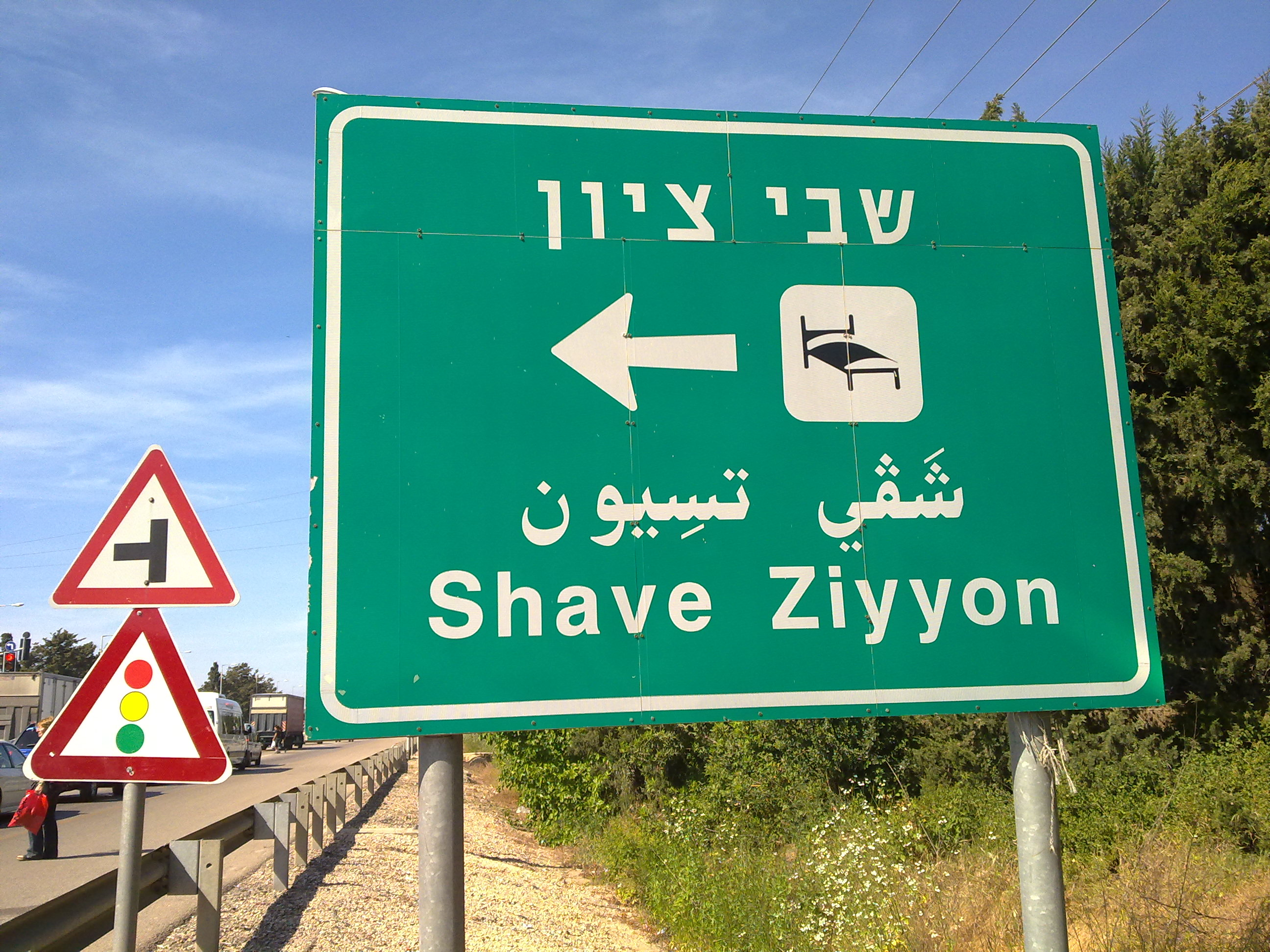 Official name is "Shavei Zion"